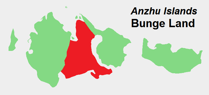 Location map